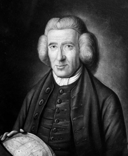 James Ferguson (1710-1776) May be in Joseph Wrights Orrery painting